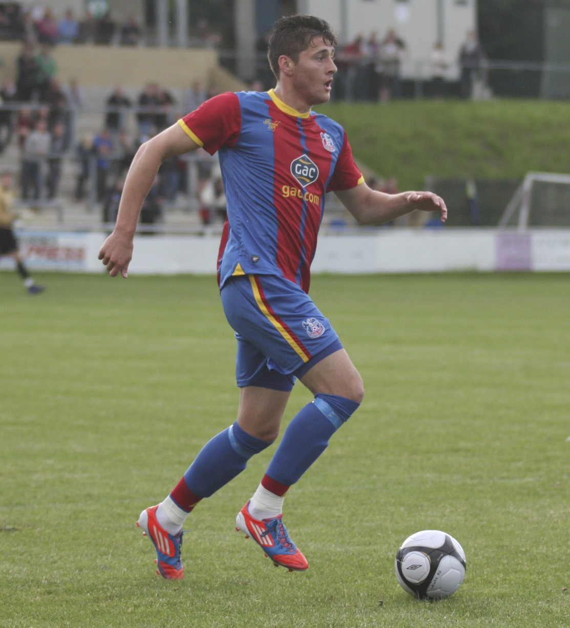 Joel Ward playing for Palace 20th July 2012